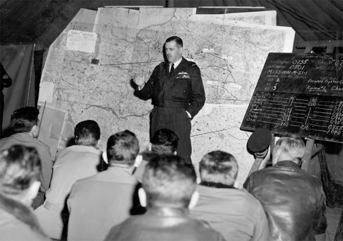 Photograph of Air Marshal Trafford Leigh-Mallory at a squadron briefing in France sometime in September 1944. This photograph was taken from the Air Force Historical Research Agency web site ( The Air Force Historical Research Agency Security and Privacy Notice ( states that "Information presented on the AFHRA Web Site is considered public information and may be distributed or copied. Use of appropriate byline/photo/image credits is requested." Note that photo credits are requested, not required. Therefore this image is in the public domain. The uploader performed minor digital enhancements prior to upload.